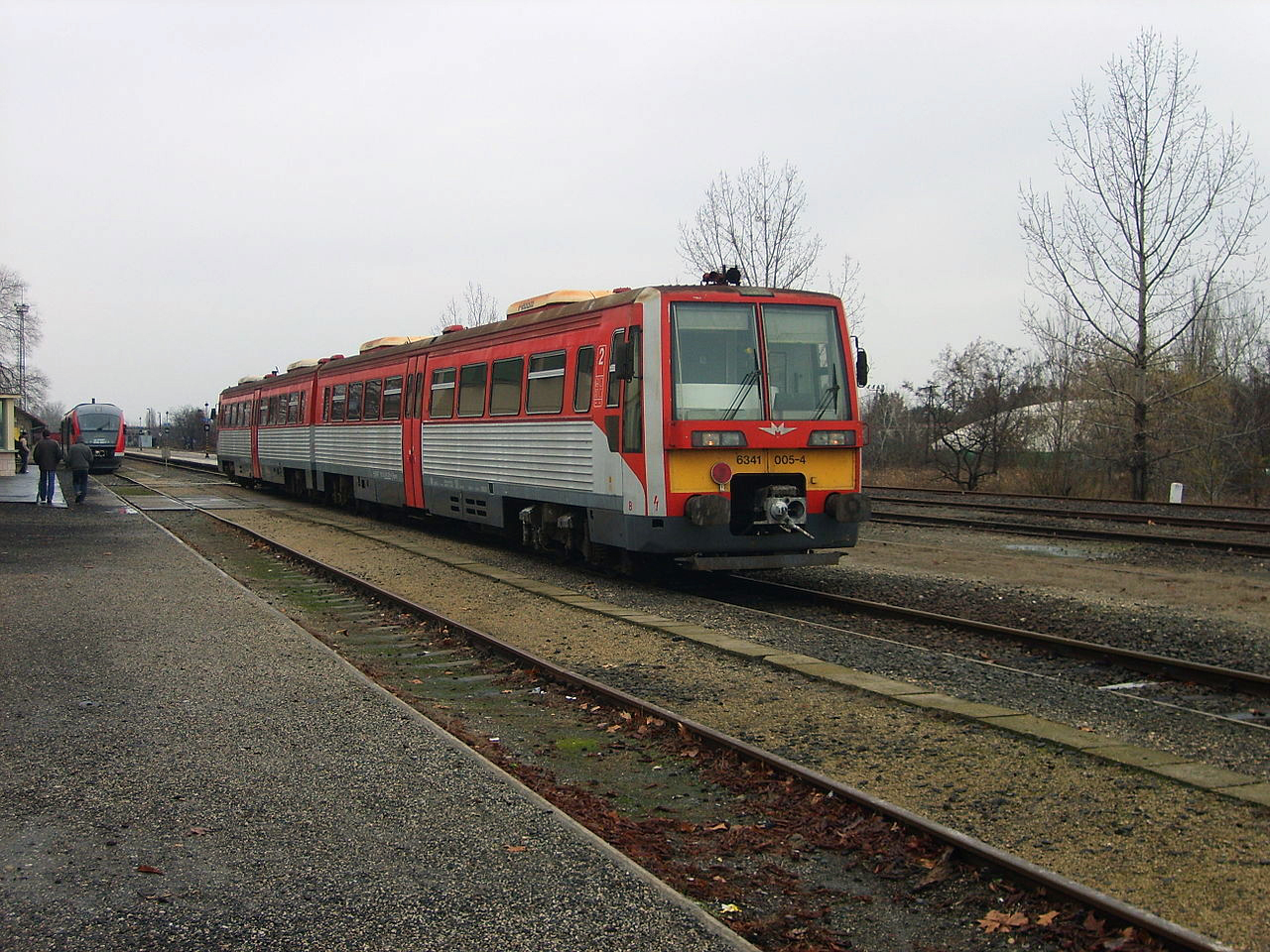 Metrowagonmash built MÁV class 6341 diesel multiple unit at Szekszárd, Hungary